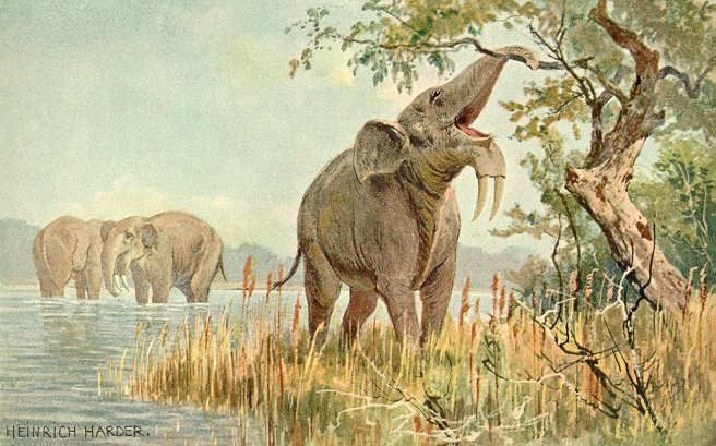 Dinotherium, artistic conjecture by Heinrich Harder (without organic tracks we have no data about the morphology of the ears, lip and trunk).